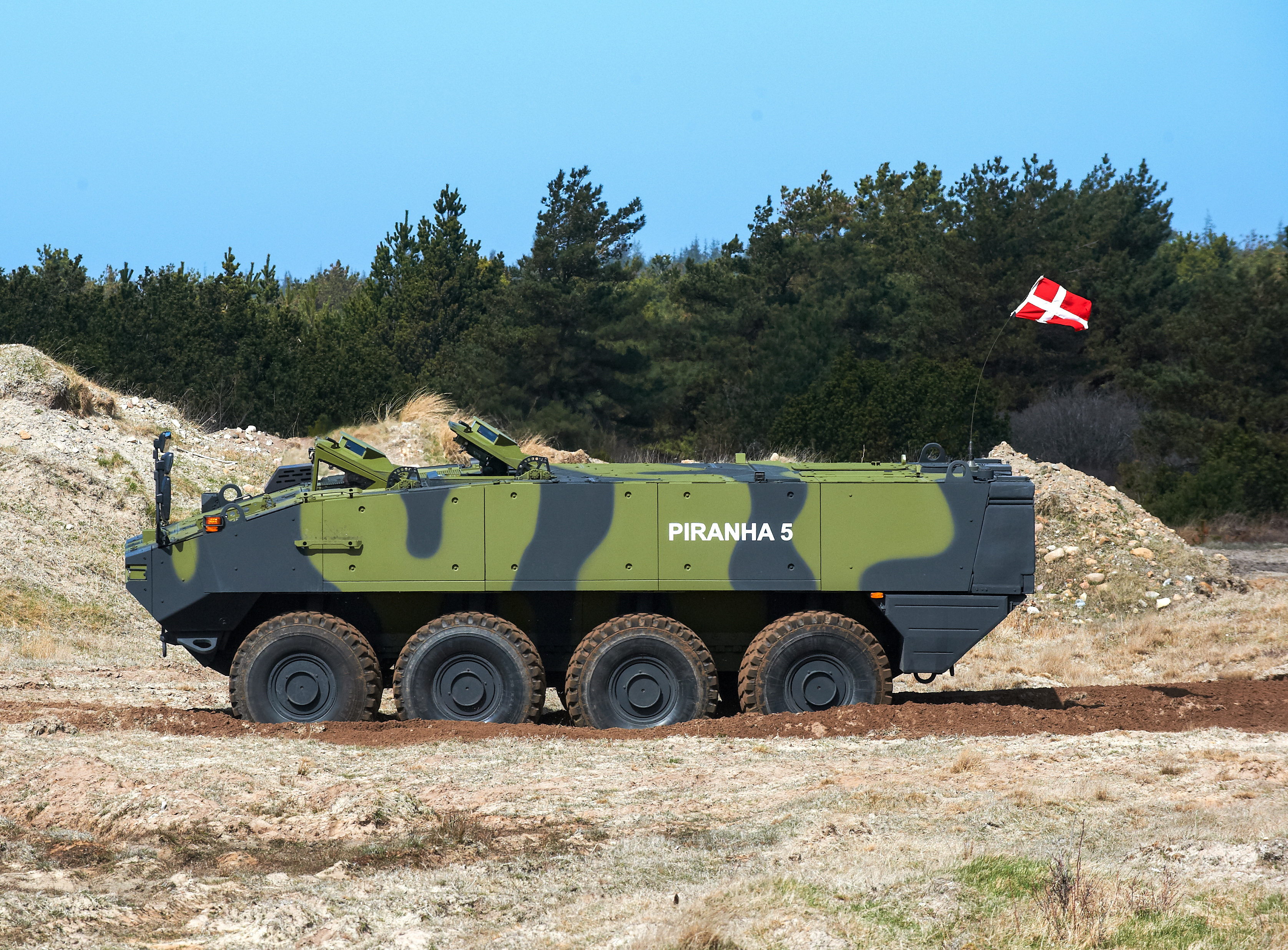 Danish Mowag Piranha VDansk: Dansk Mowag Piranha V